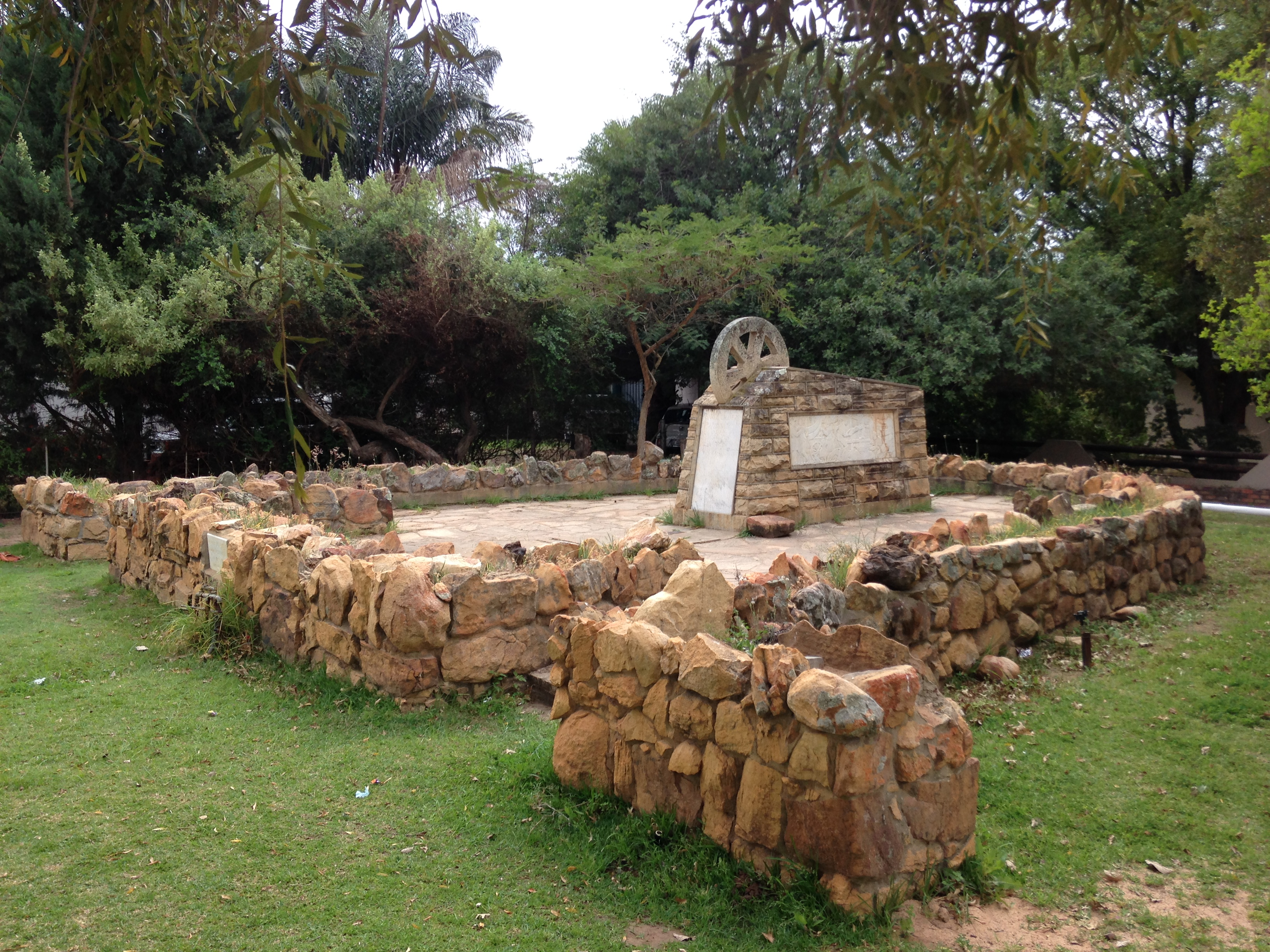 Great Trek Centennial memorial, built in 1938 in Clanwilliam to commemorate the Great Trek This media shows a South African Protected Site with SAHRA file reference 9/2/022/0002.